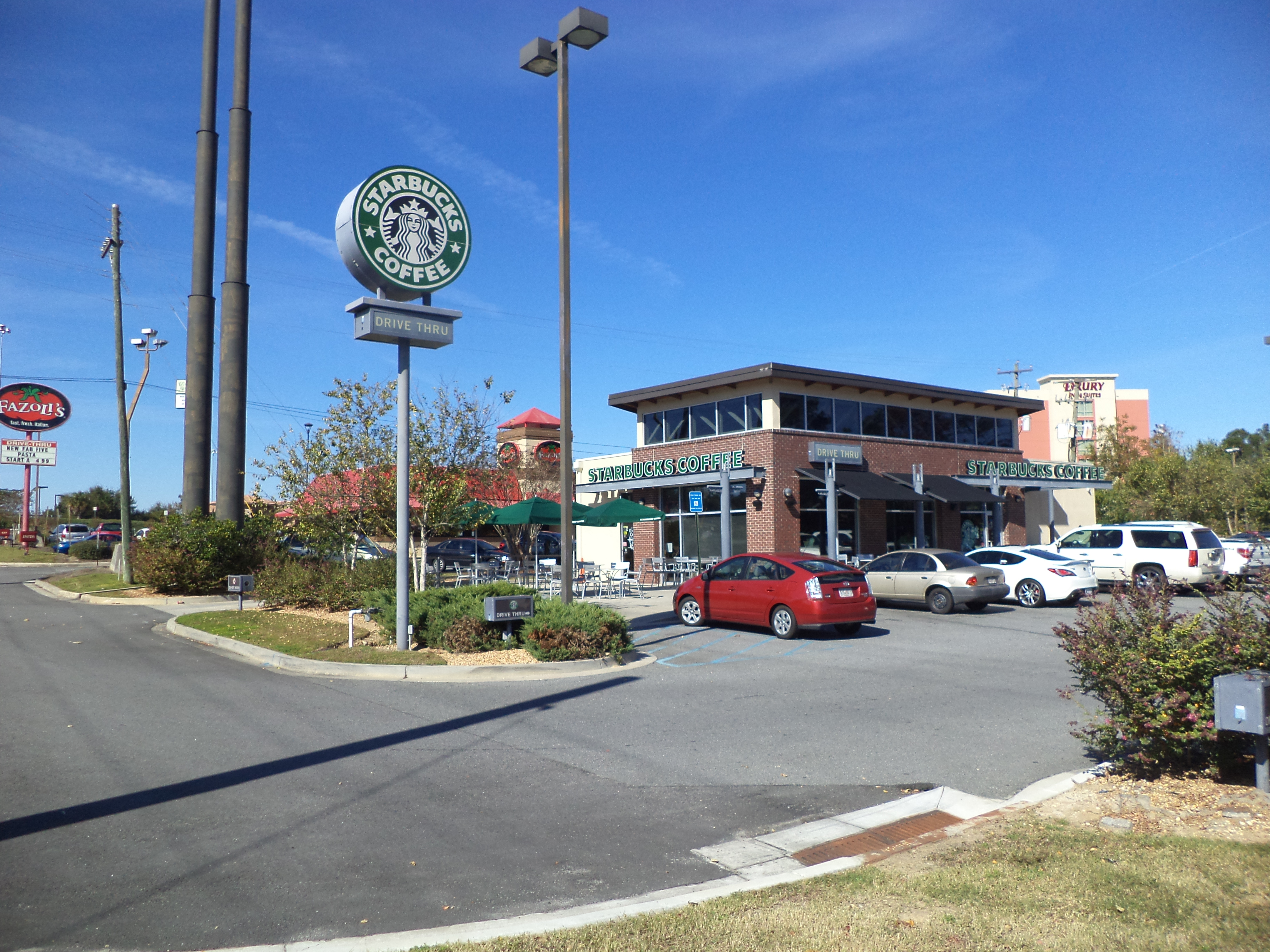 Starbucks, St Augustine Rd, Valdosta, Lowndes County, Georgia